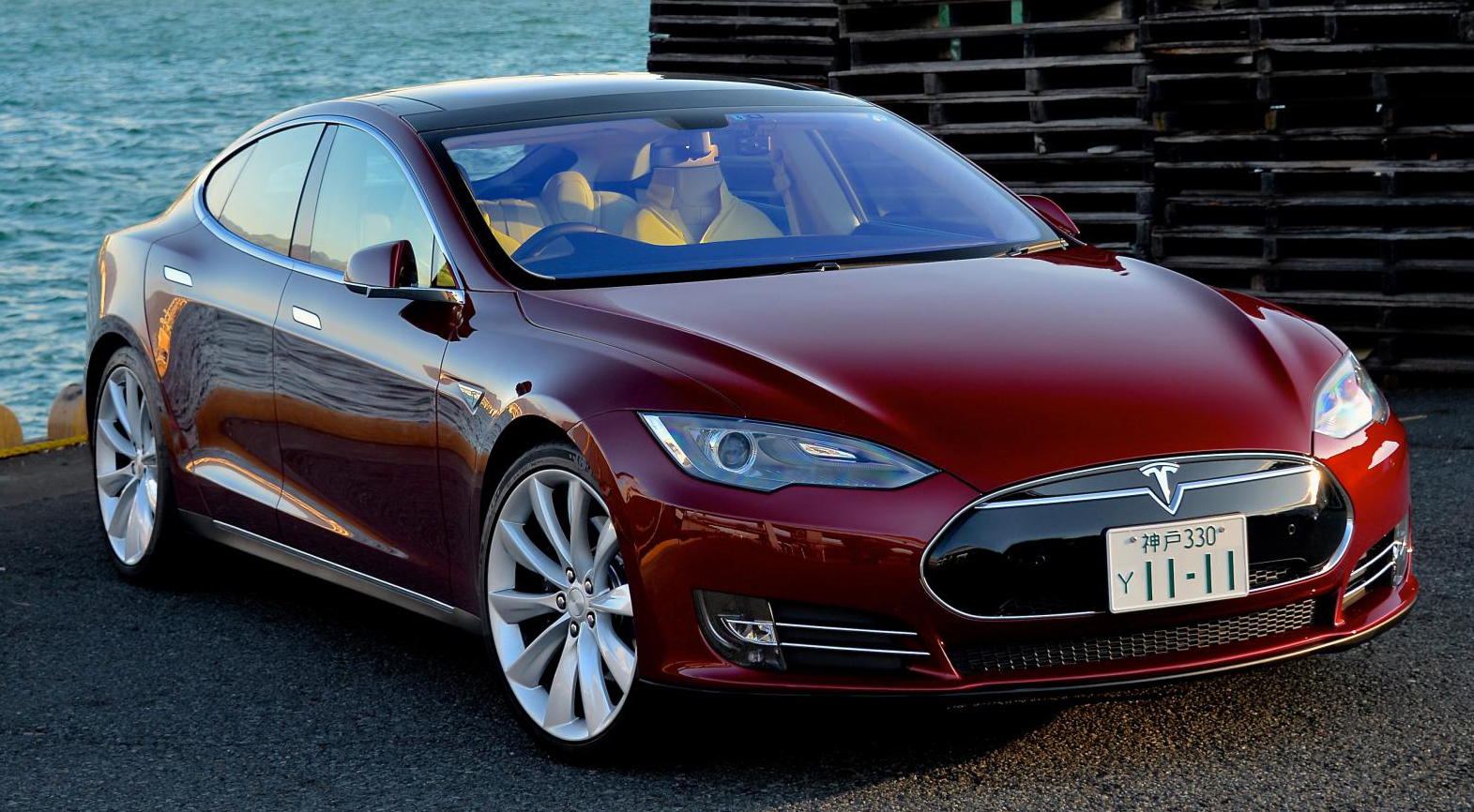 Tesla Model S in Japan